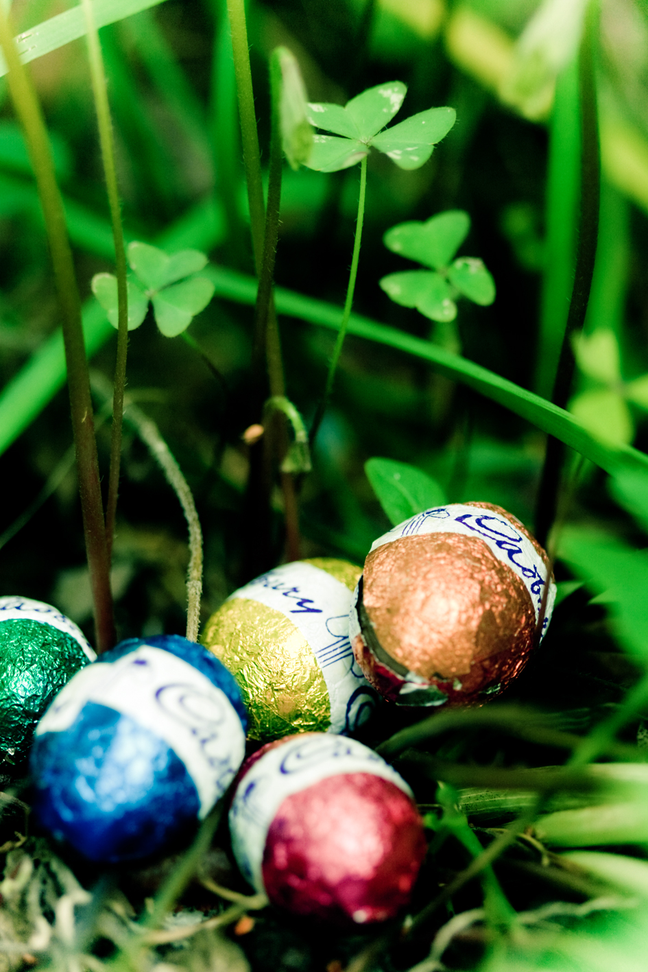 Another easter photo, I took this last year after hiding the eggs for my nieces easter egg hunt in our garden. They will be away this Easter so I will miss this.